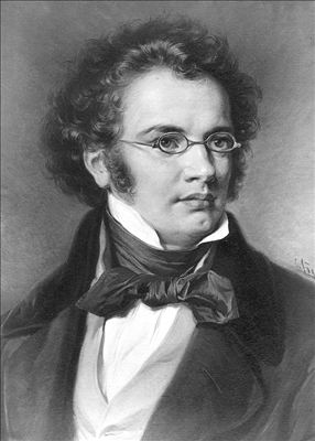 "Portrait of Franz Schubert 1797-1828", oil on canvas by Carl Jäger.jpg